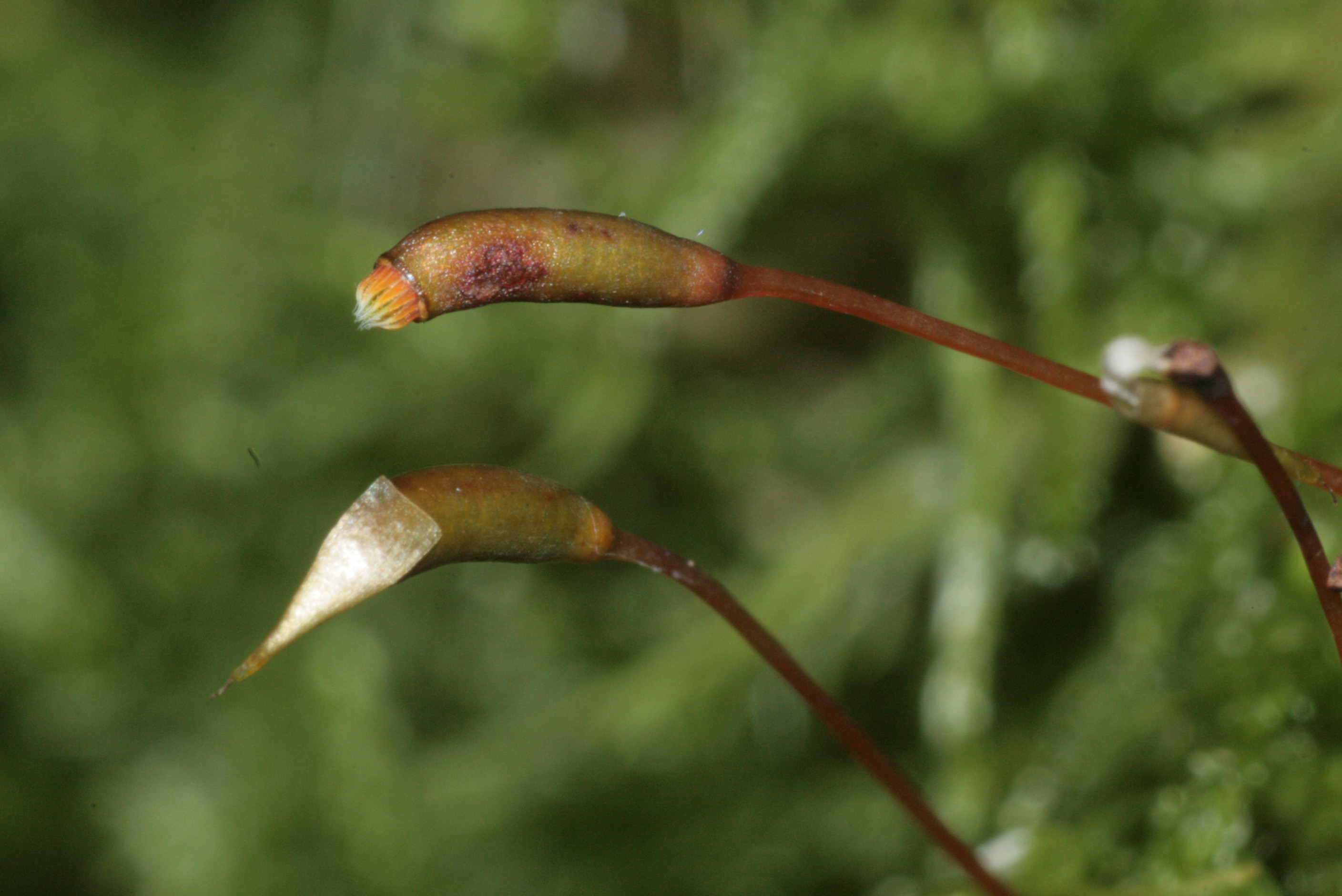 Thuidium delicatulum